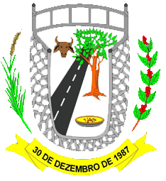 Brasao Apui